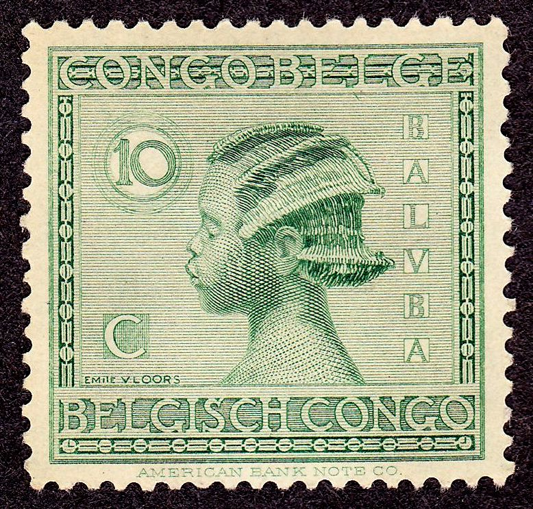 Belgium / Belgian Congo Post Office